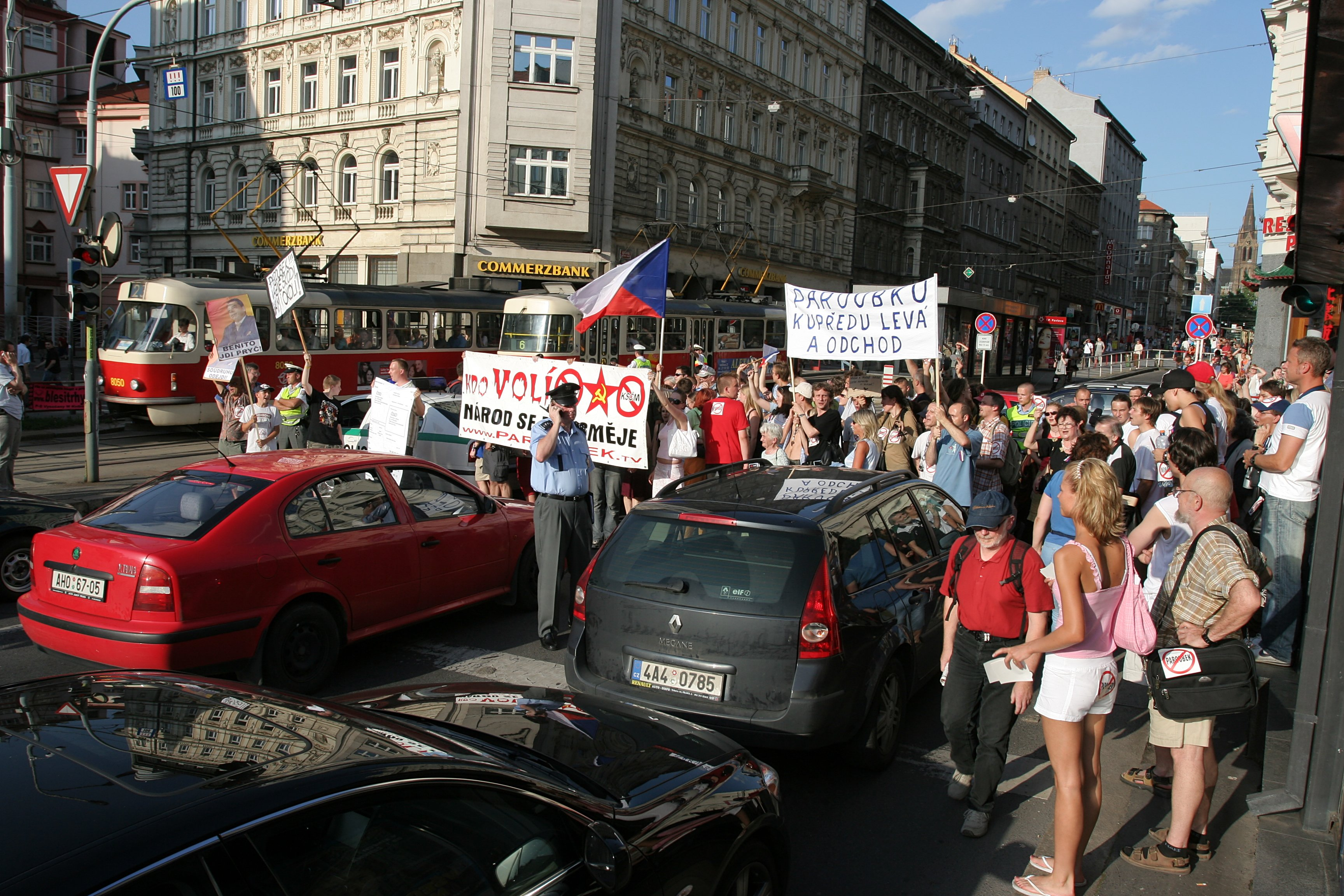 Participants of protest against Czech prime minister Jiří Paroubek blocking one of Prague's main crossroads